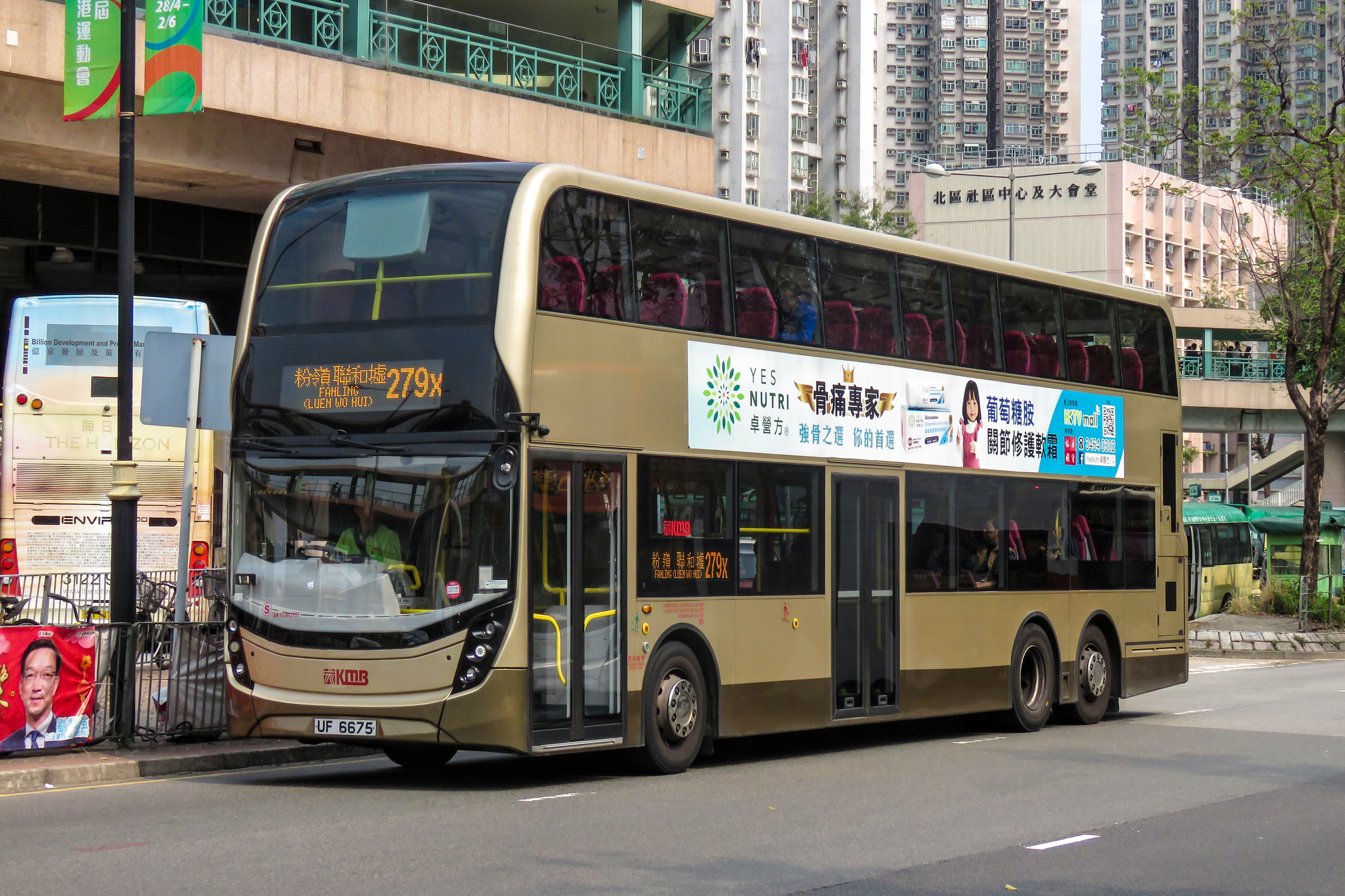 Actually this one is nearing the terminus.